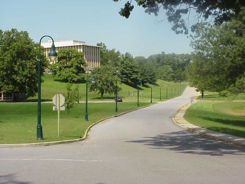 Northward along Maple Street at Spring Grove Hospital Center in Catonsville, Maryland, United States.